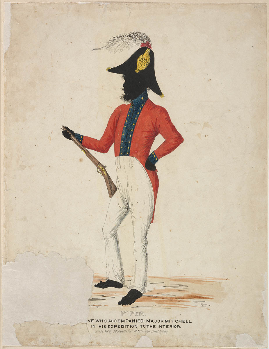 Lithograph of 'John Piper' an Aboriginal tracker who accompanied surveyor Major Sir Thomas Livingstons Mitchell on his expedition across the Great Dividing Range by W.H. Fernyhough